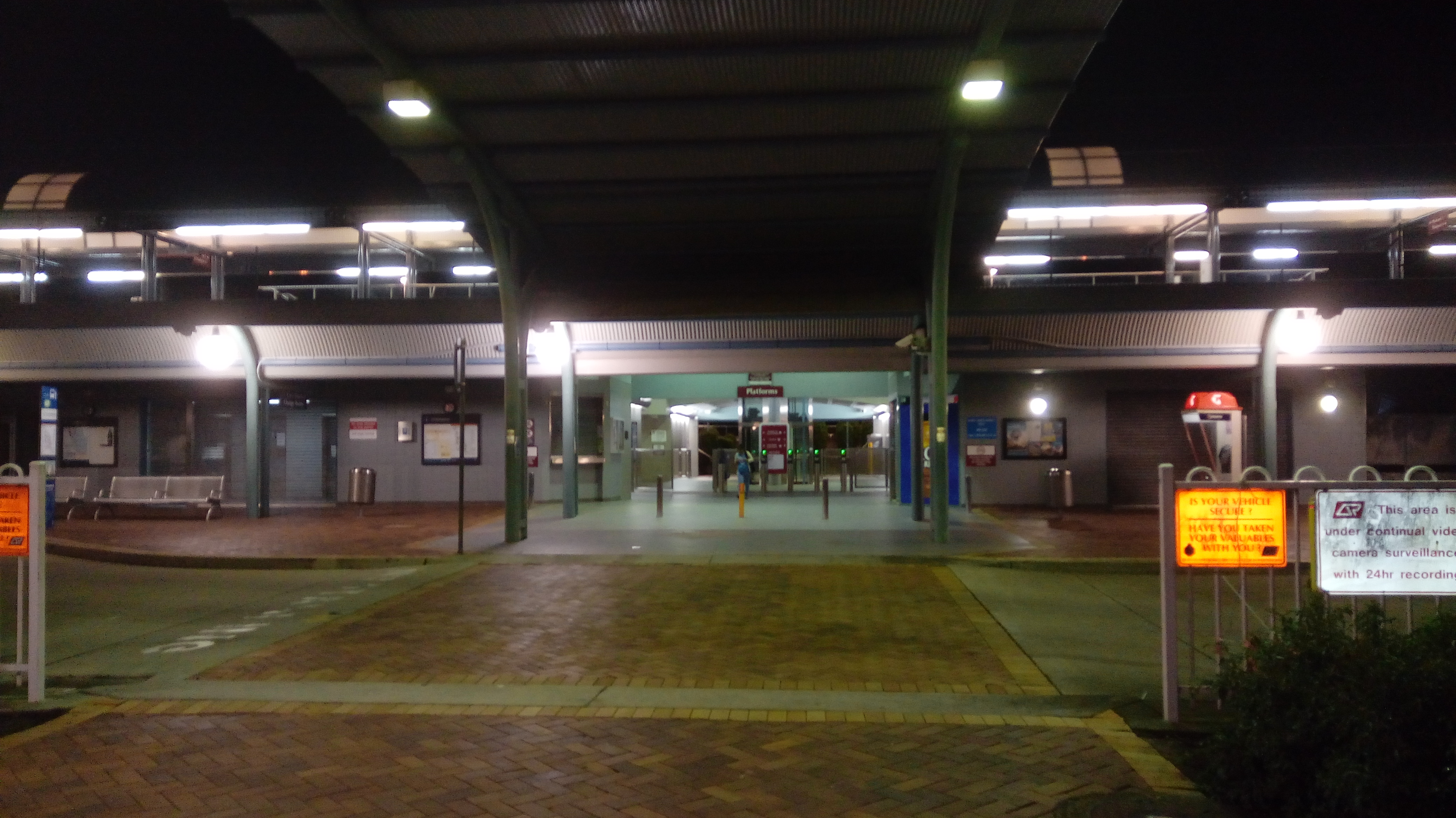 main entrance at night